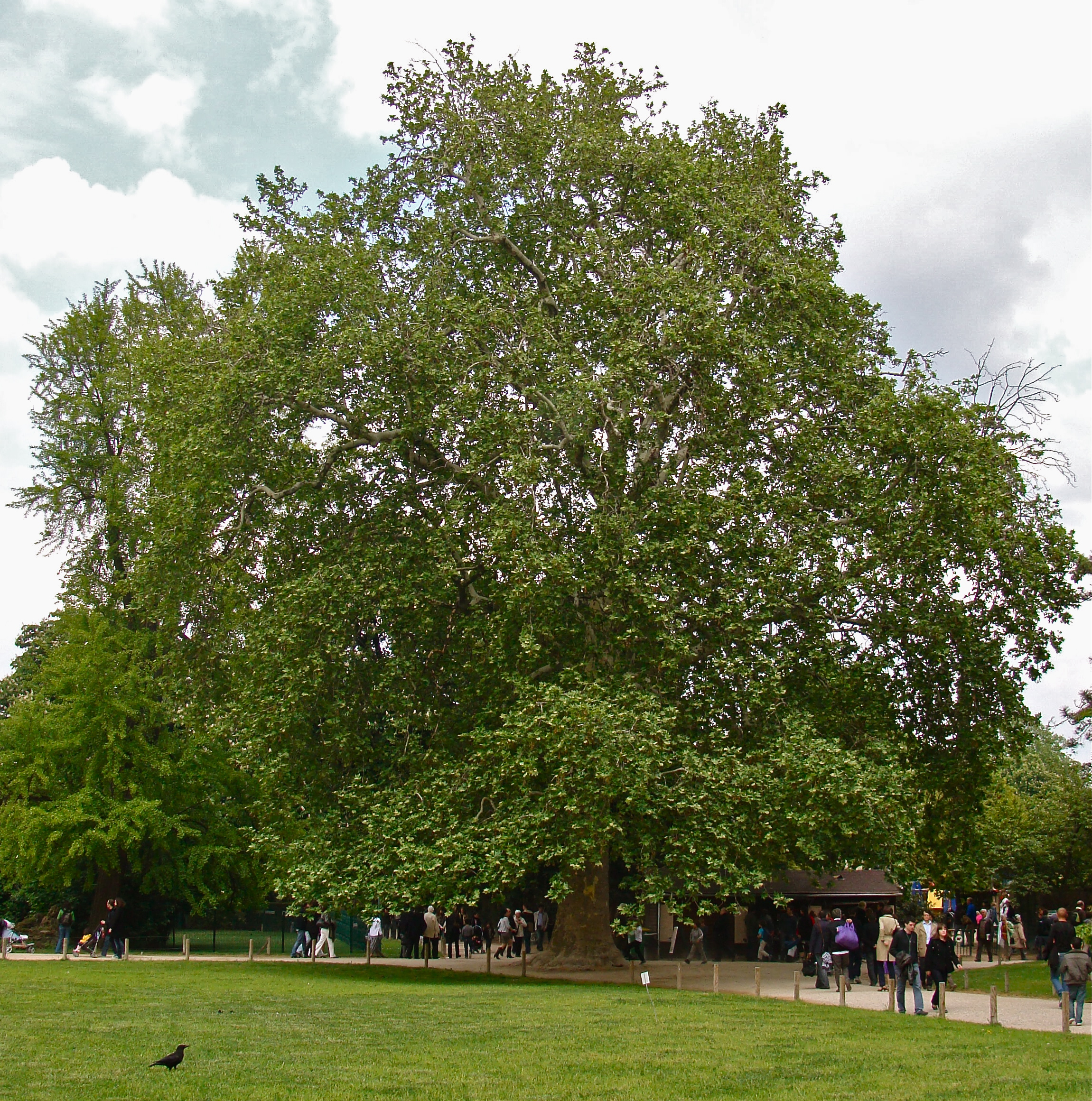 the whole platanus orientalis planted by Buffon in the Jardin des Plantes of Paris in 1785